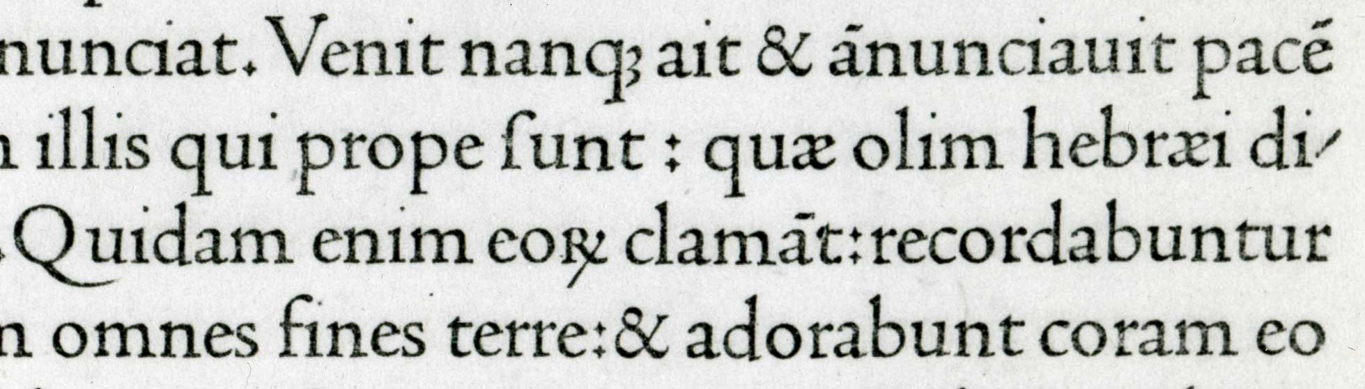 part of page of 'Eusebius' (printed book by Nicolas Jenson, 1470), book of the Museum Meermanno-Westreenianum in The Hague, Netherlands, photography done at the Koninklijke Bibliotheek, Den Haag